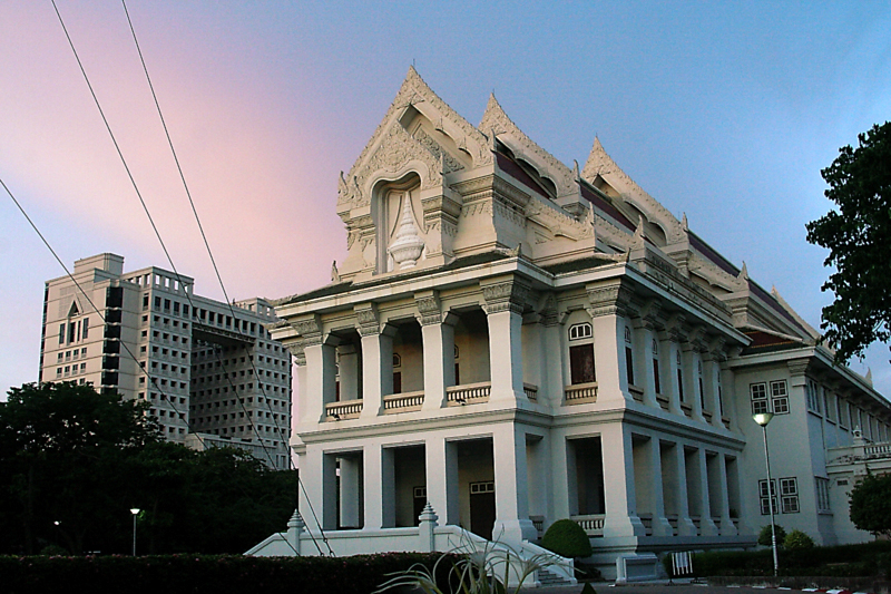 main auditorium of chulalongkron univercity